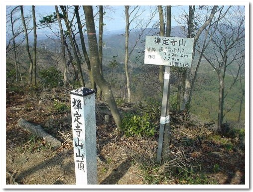 Top of Mount Zenjoji (Zenjoji-san) in Yamaguchi City, Yamaguchi Prefecture, Japan